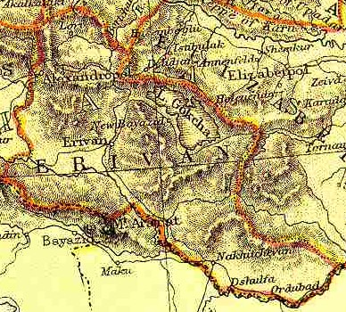 Map of Erivan (Russian Empire). Scale: 1:6,100,000 (or one inch = about 96 miles)